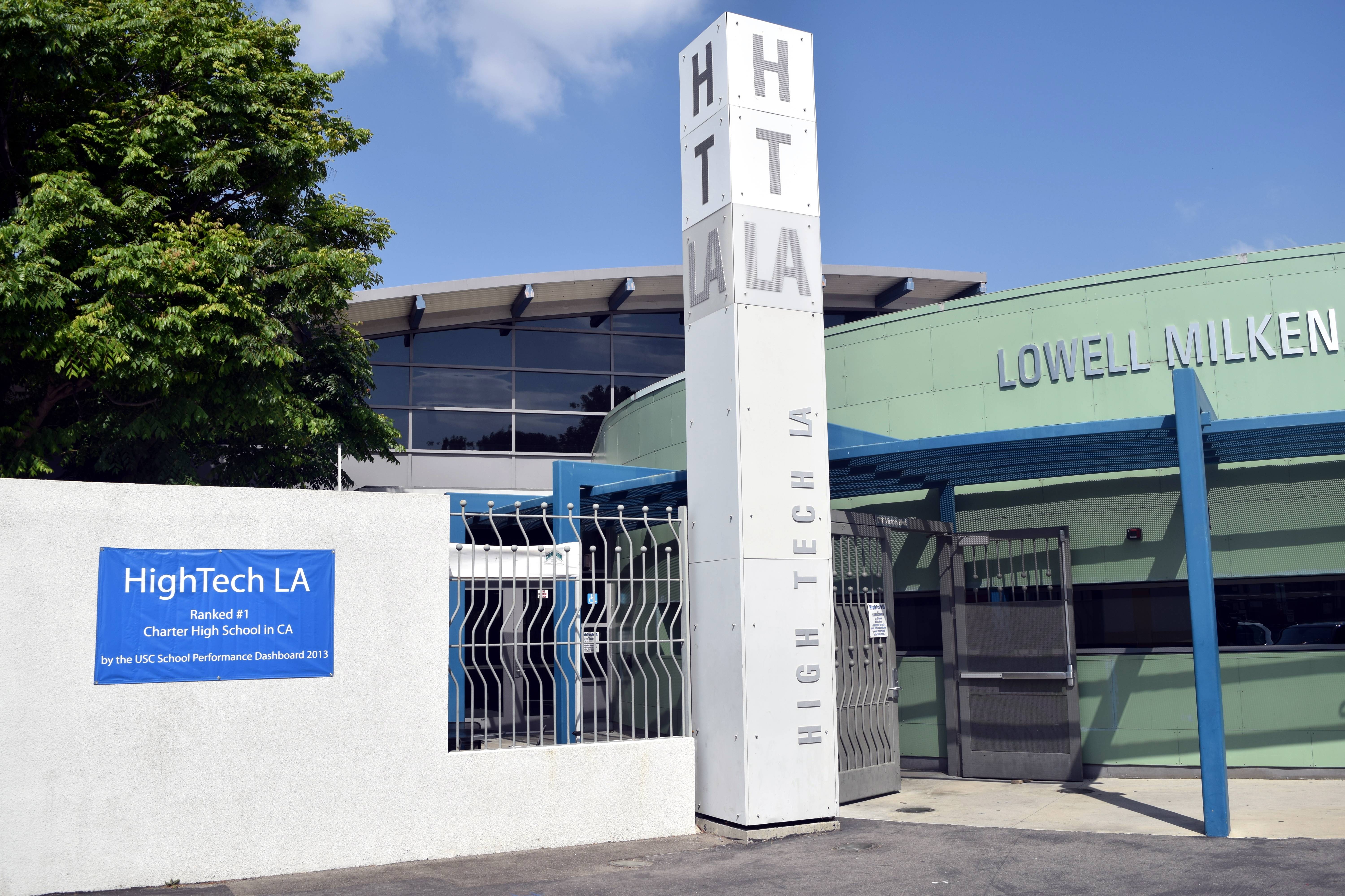 A picture of the front of High Tech Los Angeles.